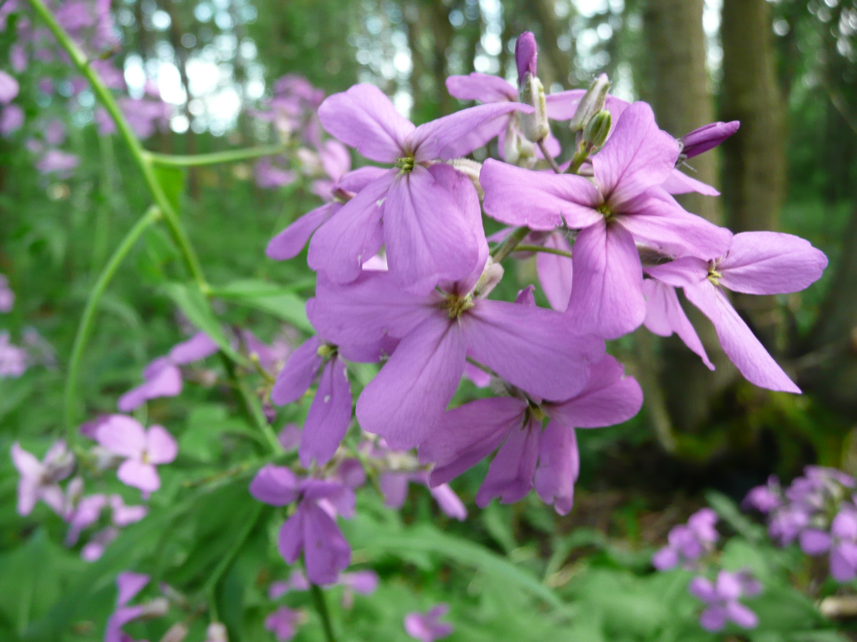 Dame's Rocket (Hesperis matronalis) in Helsinki, Finland.